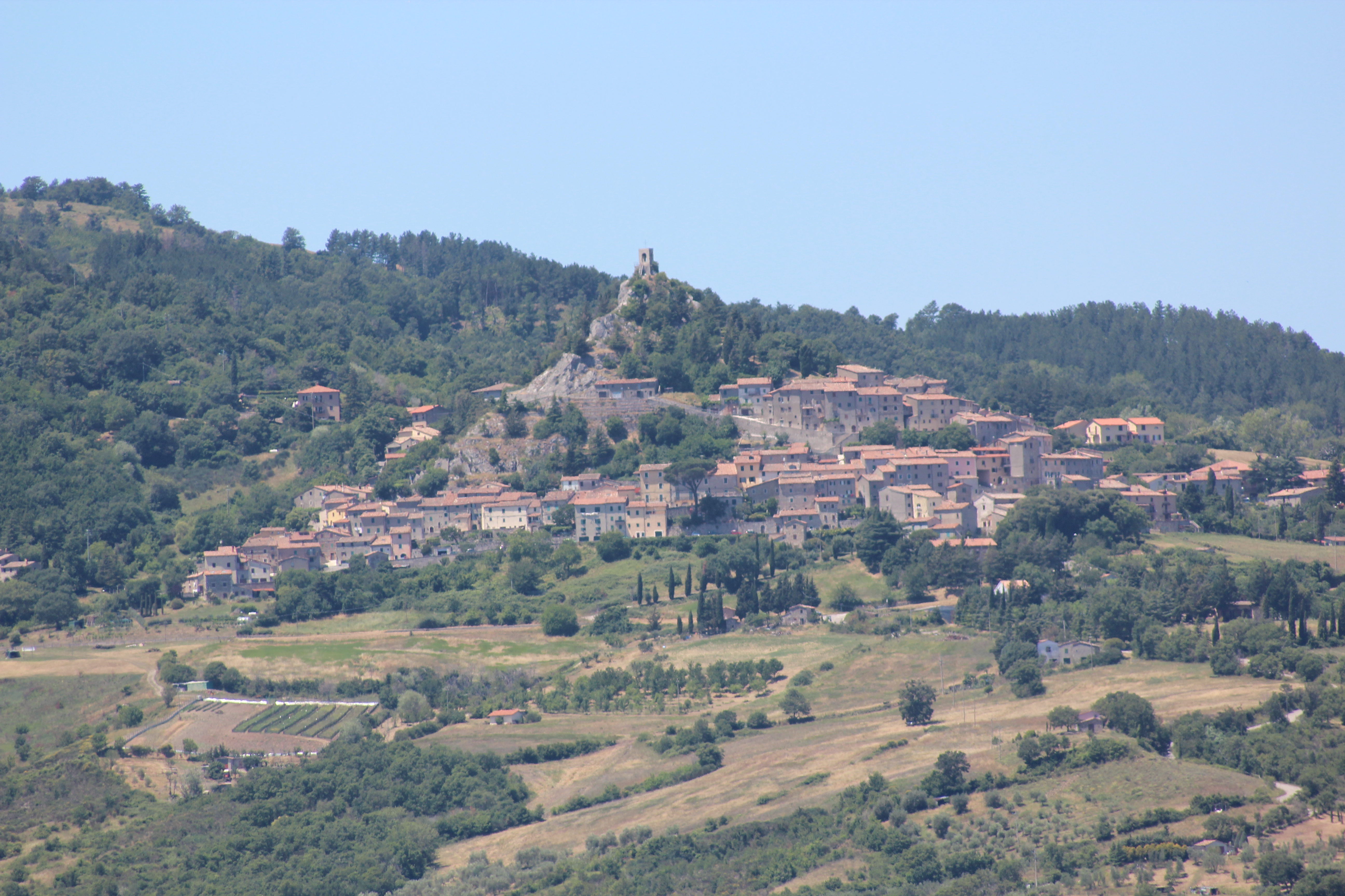 Panorama of Campiglia d’Orcia, hamlet of Castiglione d’Orcia, Val d’Orcia, Province of Siena, Tuscany, Italy